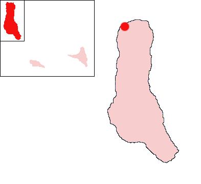 Mitsamiouli, Grande Comore, Comoros Location Map; created with the GIMP. Made by User:Acntx. koua,Mits, Grande Comore, Comoros Location Map; created with the GIMP. Made by User:Acntx.